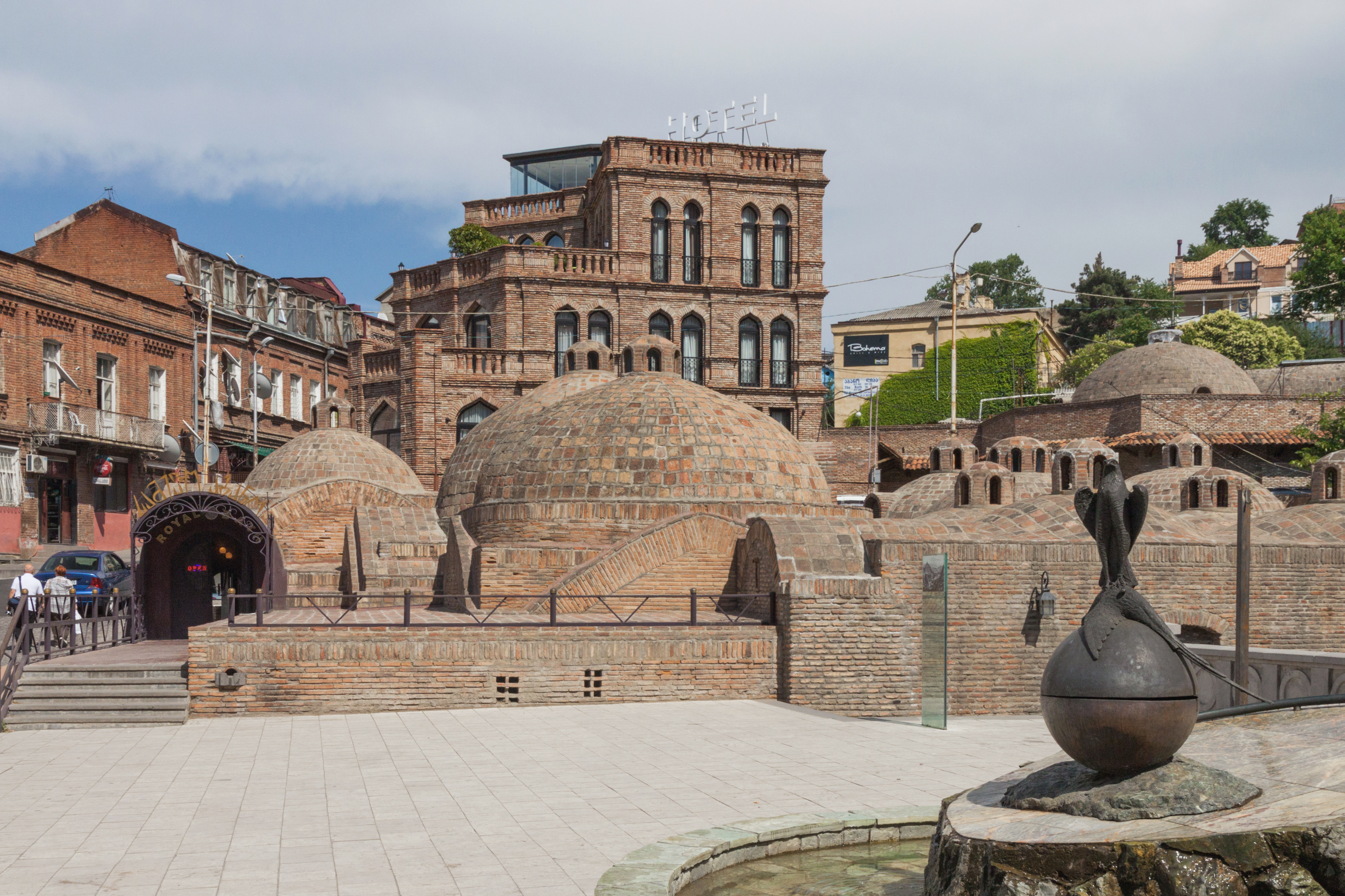 Sulfur baths in Abanotubani. Royal baths. Tbilisi, Georgia.